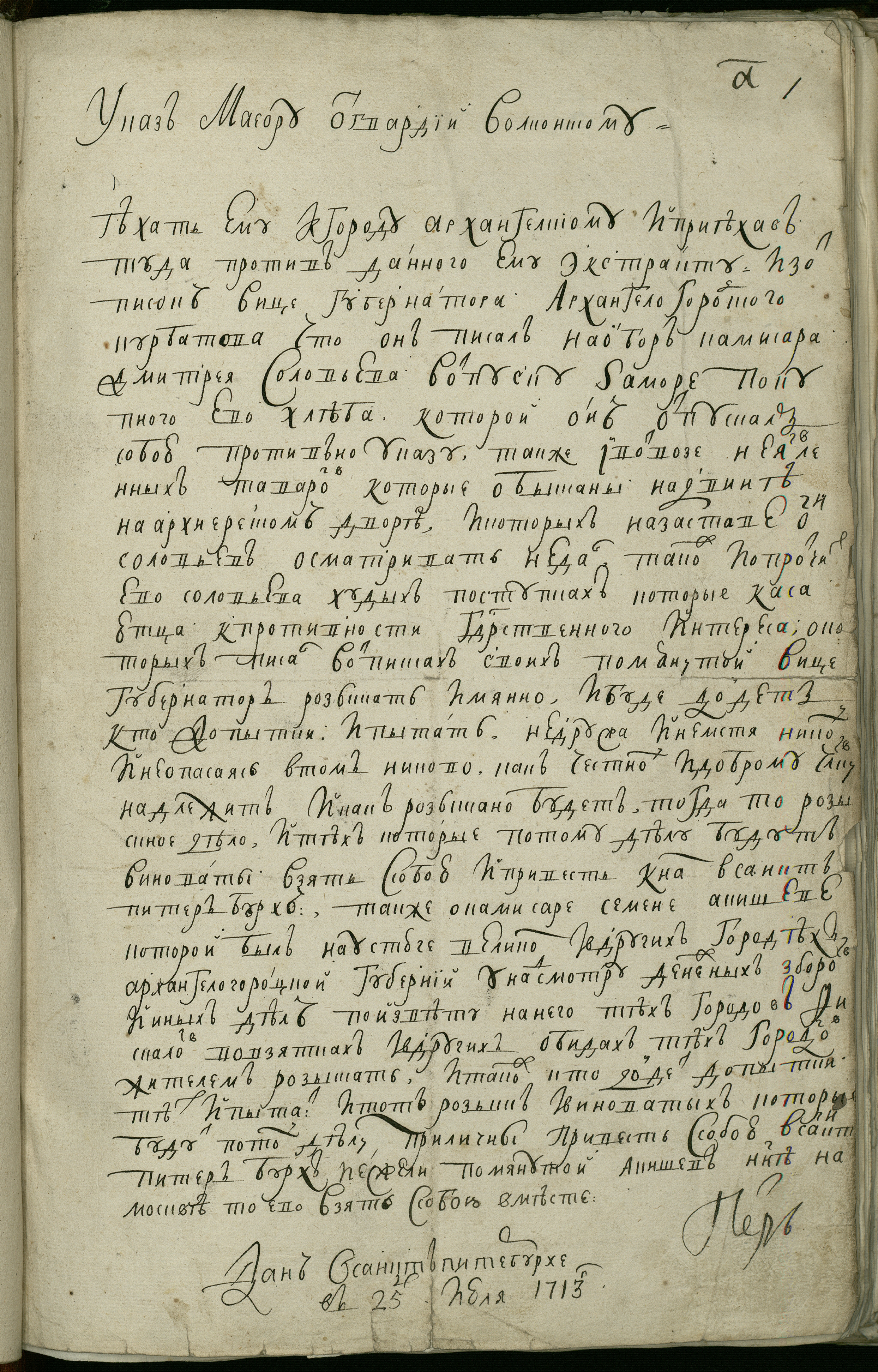 A scan of Peter I's ukase "On the Establishment of the Investigative Chancery of Major M.I. Volkonsky's Guards" on 25 July 1713. The original document is stored in the Russian State Historical Archive. Fund 1329. Inventory 1. Book 27. Sheet 1.